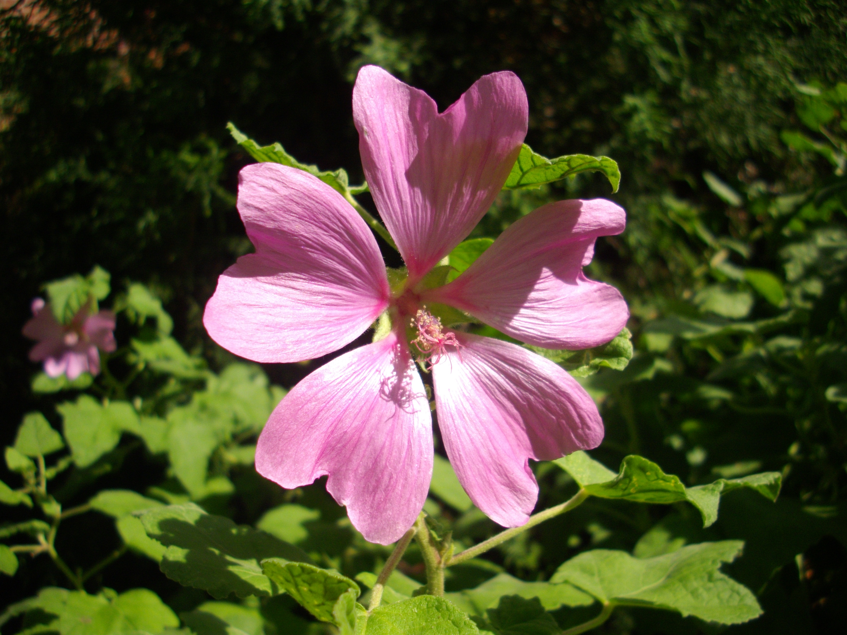 Lavatera thuringiaca, botanical garden of Metz (France), august 2011